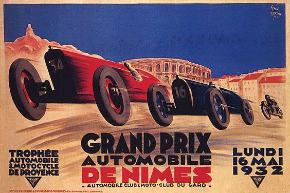 Poster of the 1932 edition of the Grand Prix of Nîmes